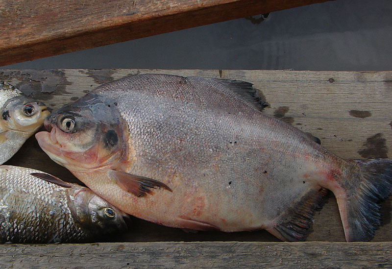 A Red-belly Pacu or Pirapitinga in a fisherman's catch on the Colombian Amazon. Mainly a herbivore of the Amazon drainages. In context at